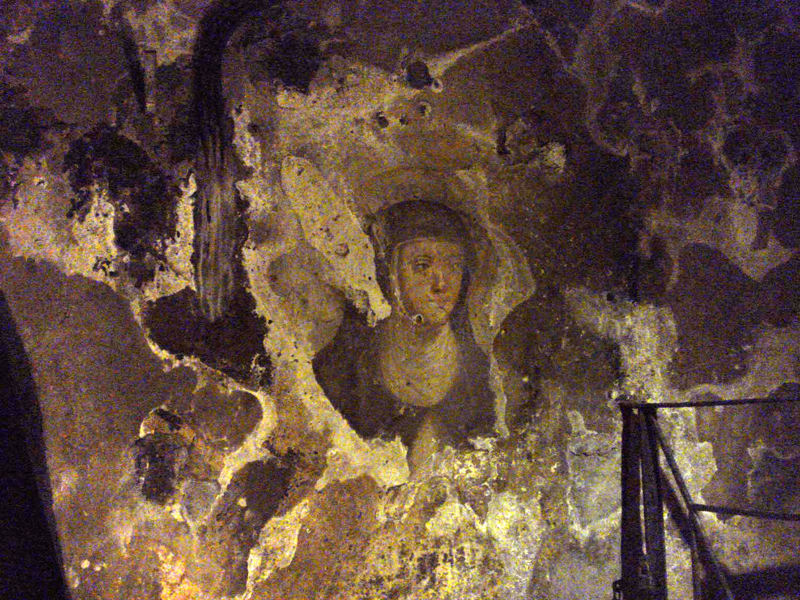 Catherine of Siena in San Gaudioso catacombs (author-Giovanni Balducci)